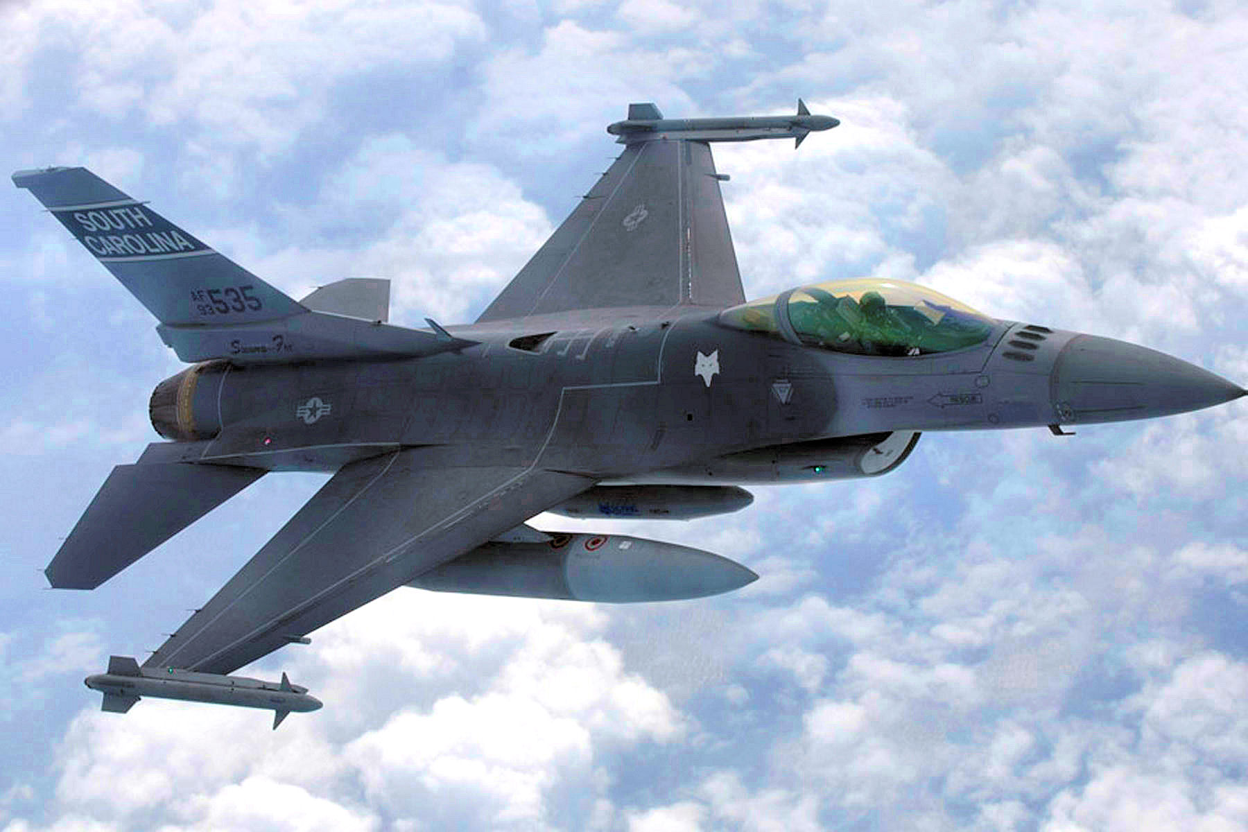 169th Fighter Wing - F-16 in flight